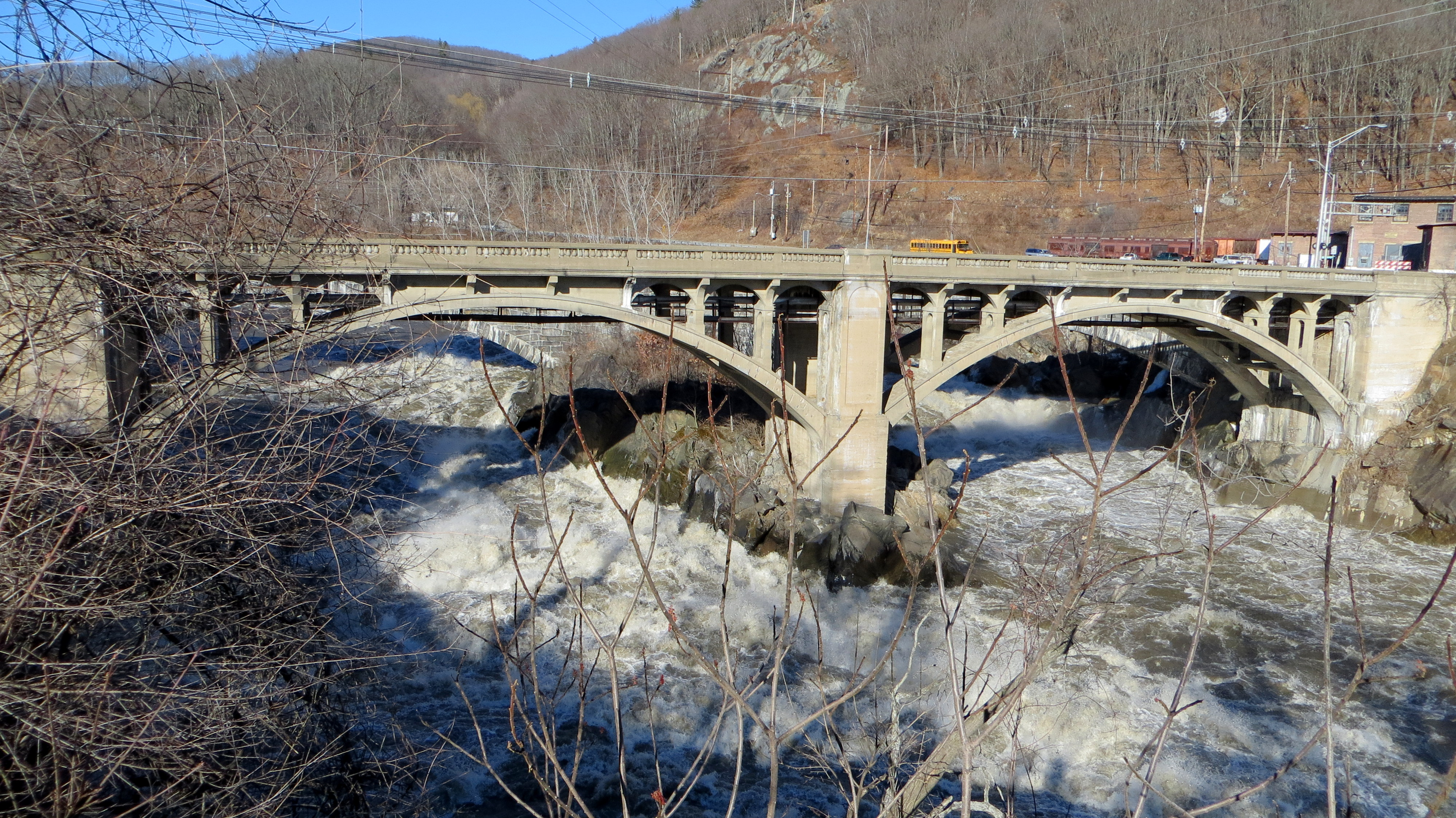 Great Falls (Bellows Falls) at high flow under the Vilas Bridge, taken from the end of Bridge St on the Vermont side, looking upriver. Flow measured nearby by USGS peaked at 60,000 CFS on that day after two days of rain. Record high streamflow here was 100,000 CFS during Irene in 2011. These are the remains of the falls after Bellows Falls Dam was built upriver, and much of the river flow was diverted into the Bellows Falls Canal.